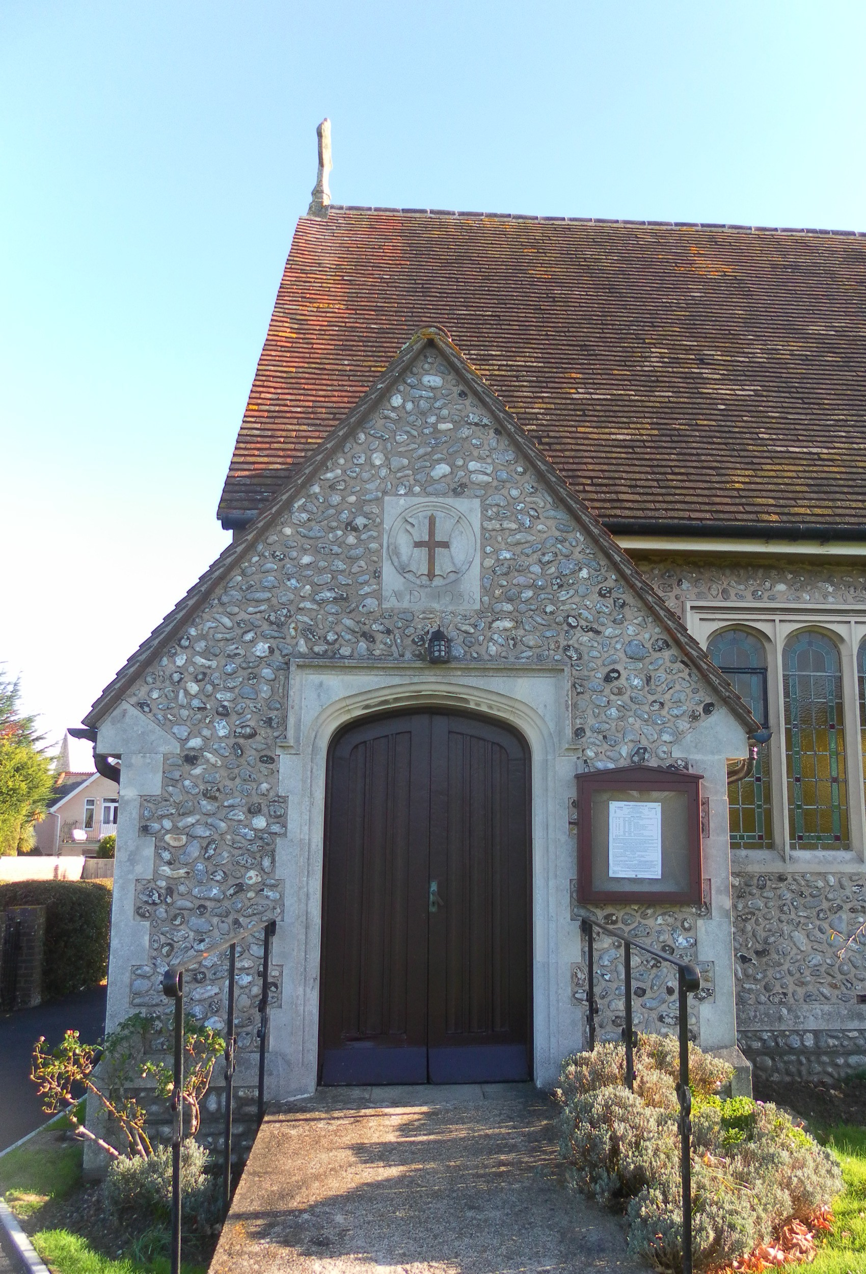 St George's Church, Eastbourne Road, Polegate, East Sussex, England. A Roman Catholic church serving the small town of Polegate. It opened on 7 December 1938. This picture shows the entrance porch.